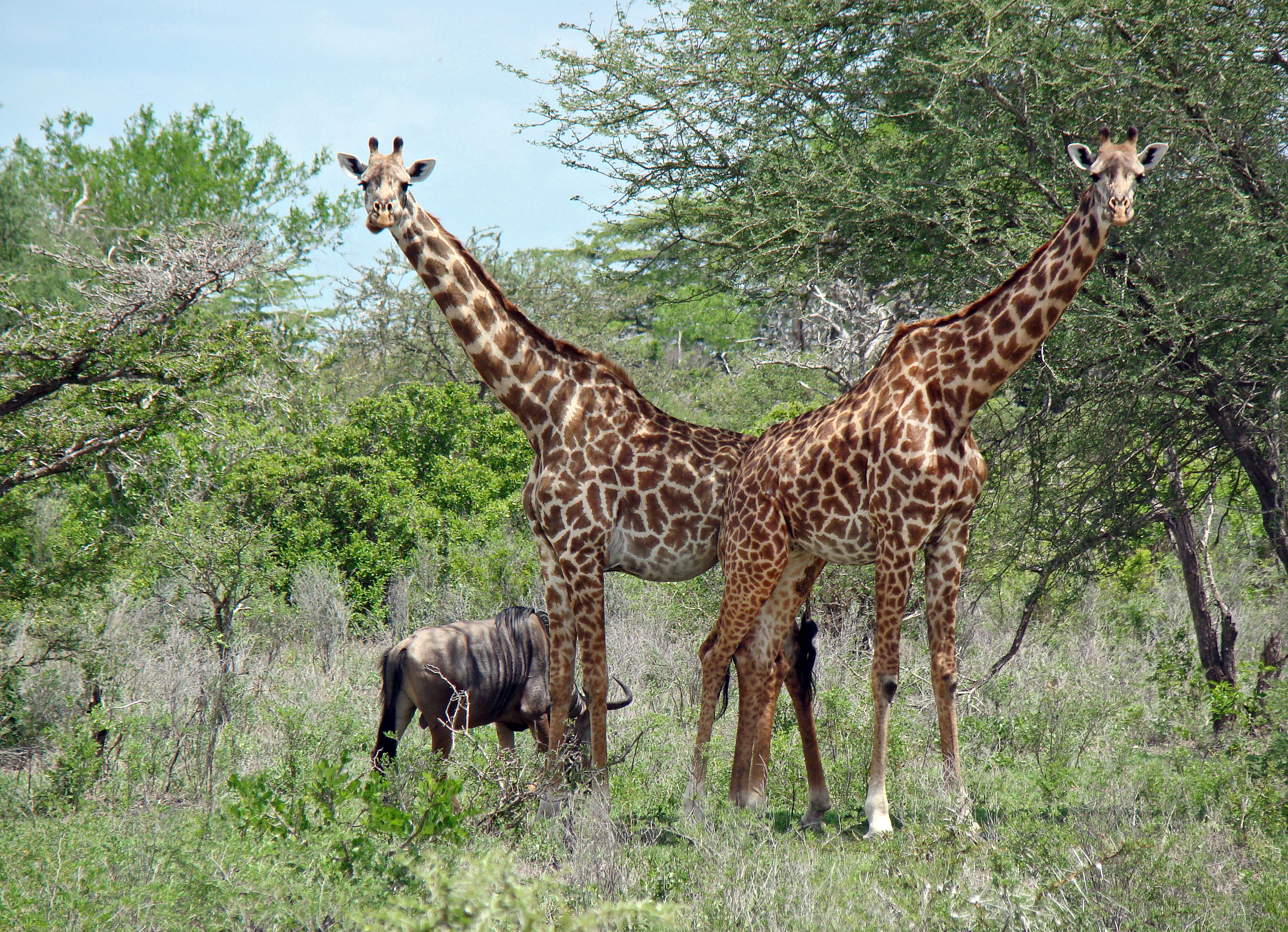 Central Tanzania, Selous Game Reserve. Giraffes and gnu